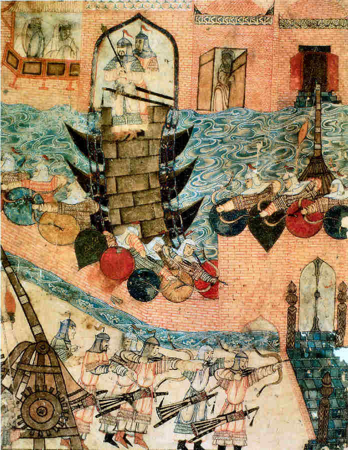 Mongol siege techniques in 1221 were little different than those used for the siege of Baghdad in 1258. A 14th century Persian illustration from the Heinrich von Diez Albums, Staatsbibliothek zu Berlin.